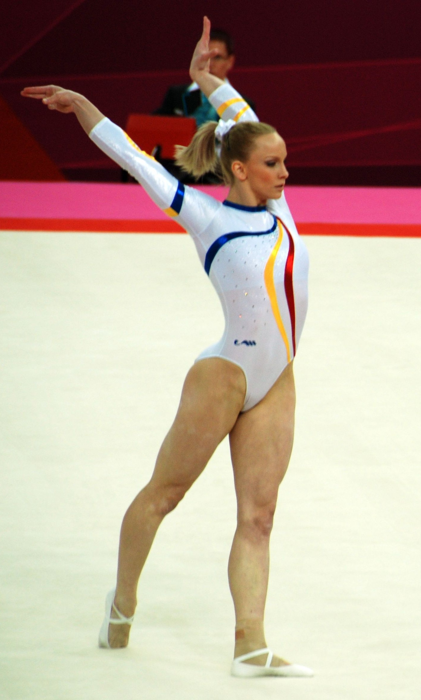 Women gymnastics, Olympics 2012, Sandra Izbaşa